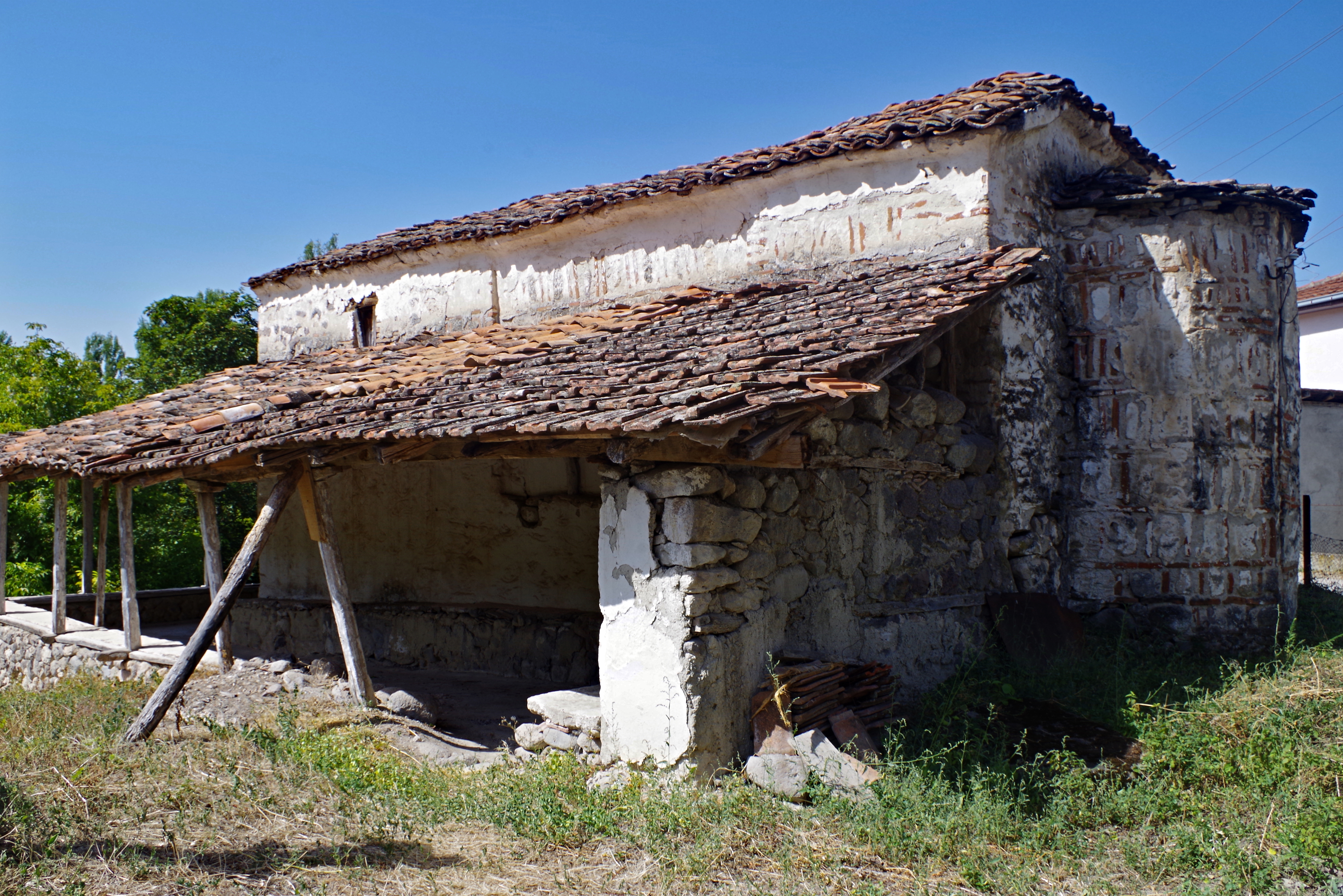 Church of the Theotokos in the village of Dabnište